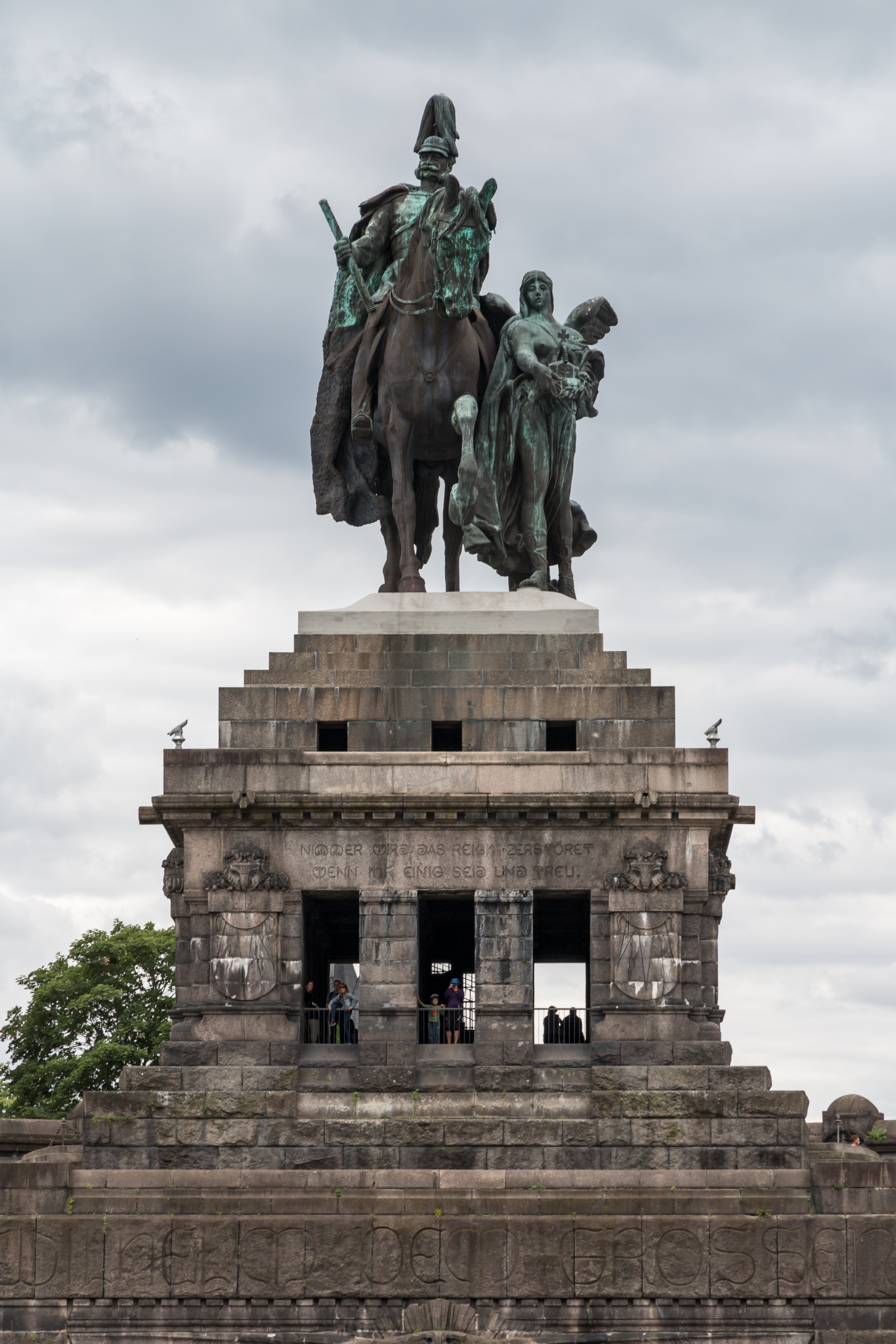 Emperor William I statue (Deutsches Eck), Koblenz, Rhineland-Palatinate, Germany This is a photograph of an architectural monument.It is on the list of cultural monuments of Koblenz Sculpture TitleKaiser-Wilhelm-I.-DenkmalArtistEmil HundrieserDate31 August 1897